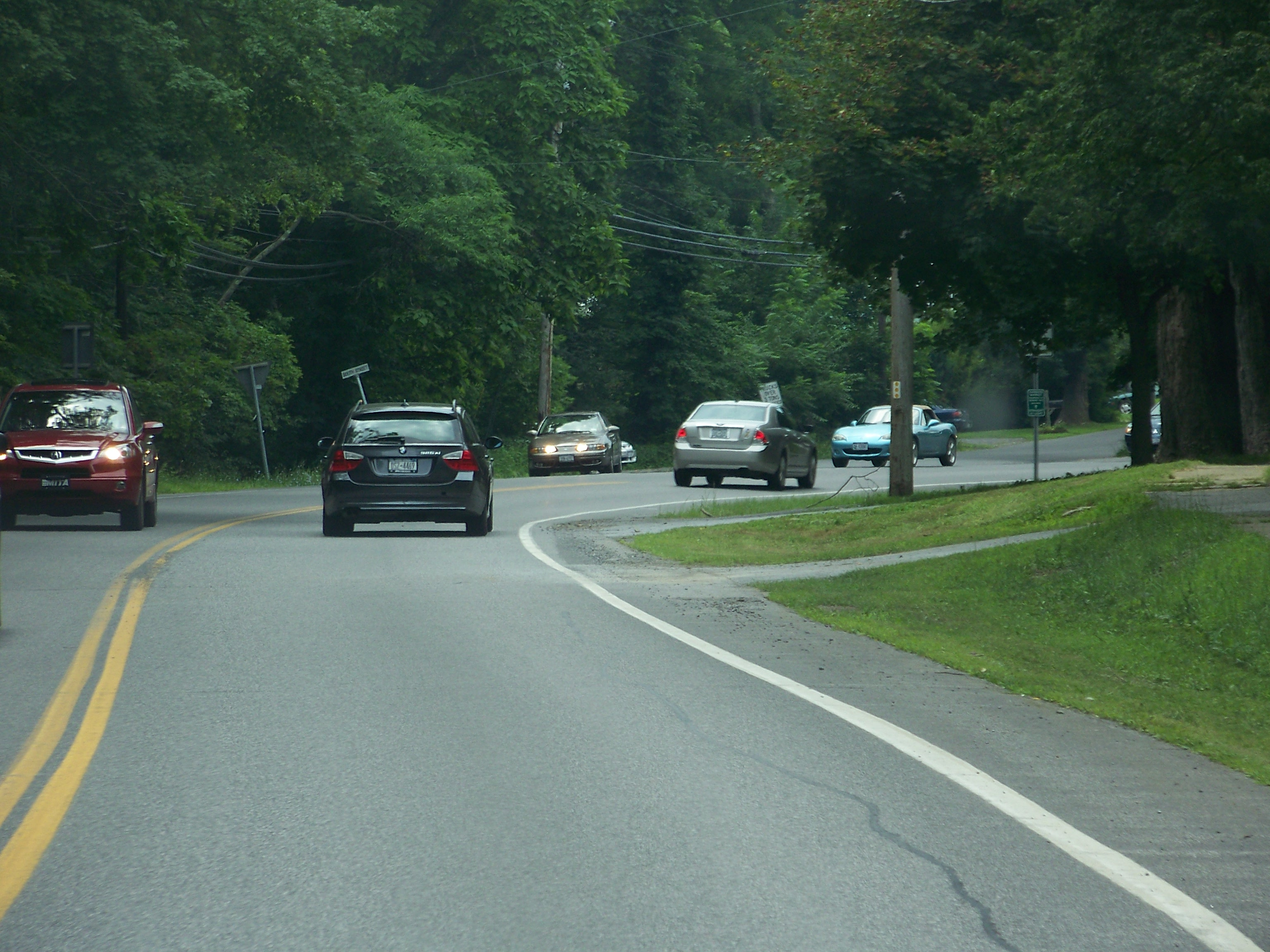 NY 308 nearing the Village of Rhinebeck, NY